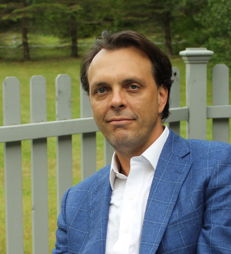 Headshot of Business Man and Entrepreneur Ken Fields